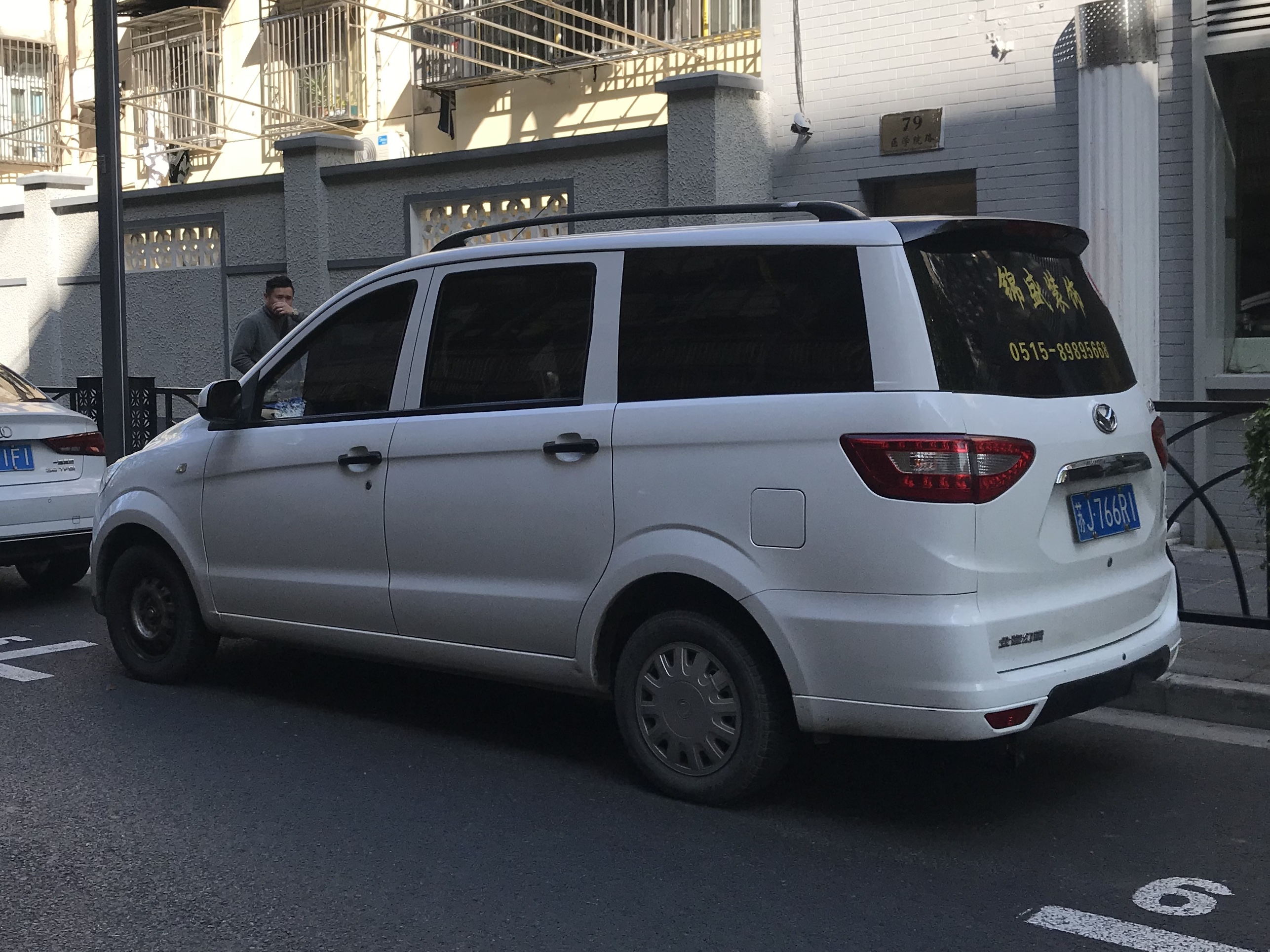 Huansu H2 rear